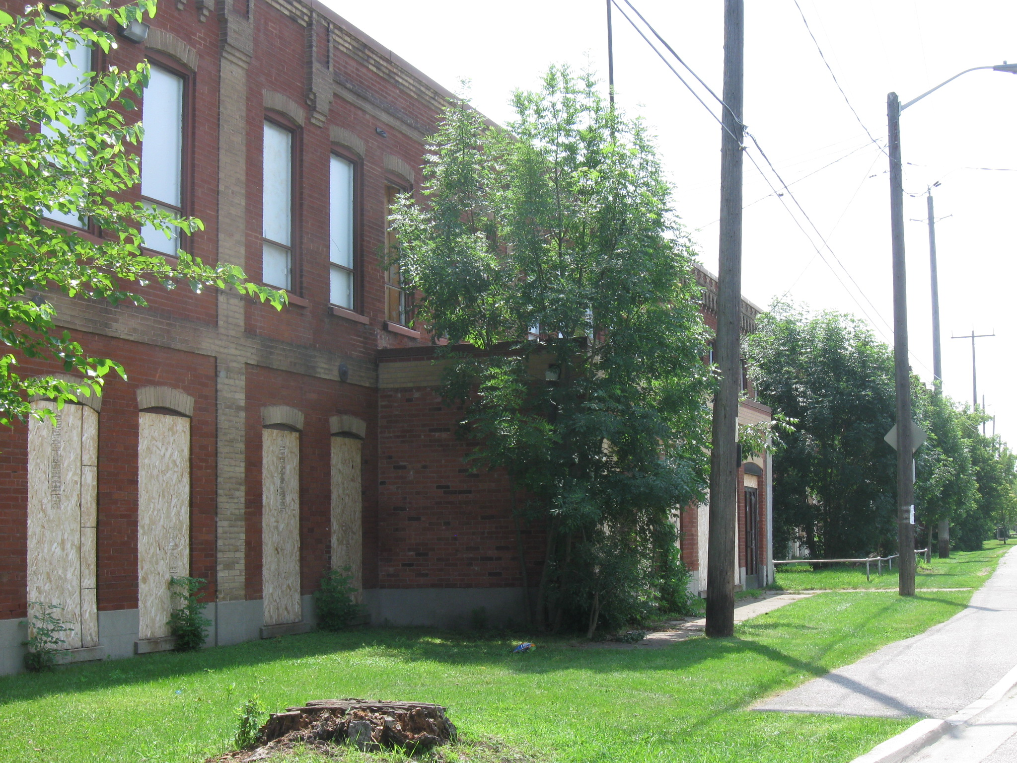 Derelict building formerly utilized by Ontario Malleable and Knob Hill Farms Oshawa